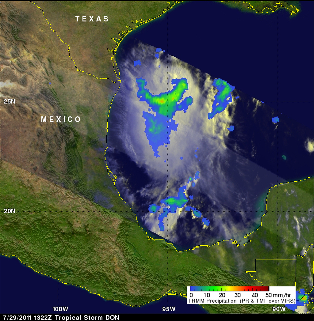 The TRMM satellite again viewed tropical storm DON on 29 July 2011 at 1322 UTC (7:22 AM CDT). A rainfall analysis from TRMM's Microwave Imager (TMI) was overlaid on a sunlit combination visible/infrared image from TRMM's Visible and InfraRed Scanner (VIRS) instrument.